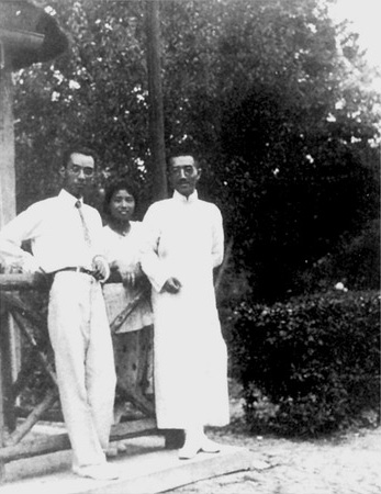 Hu Shih, Ren Hong-jun and Sophia Chen in Southeast University when Ren and Chen were engaged.